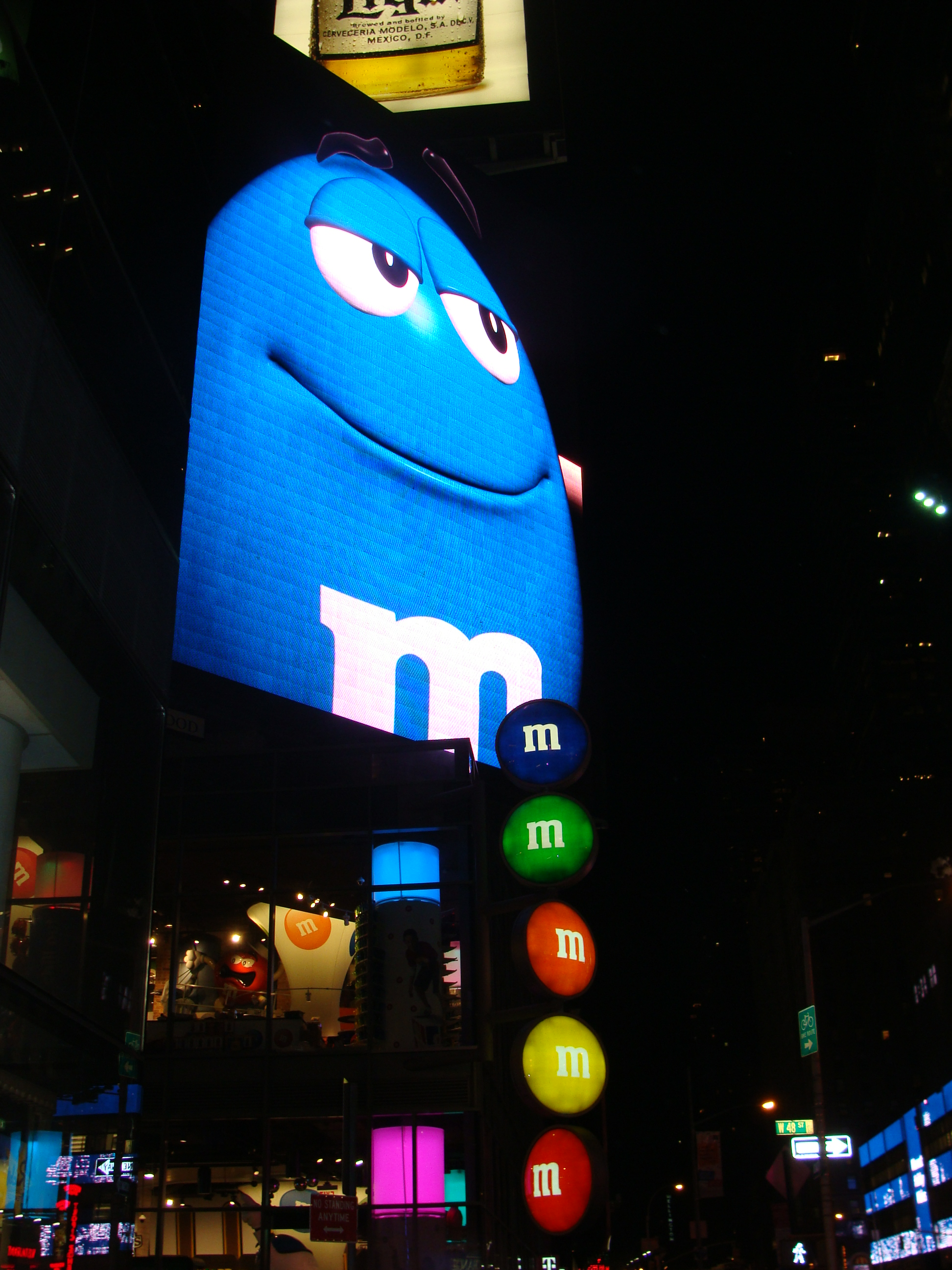 This is a photo of the outside of the M&M store in Times Square, NYC